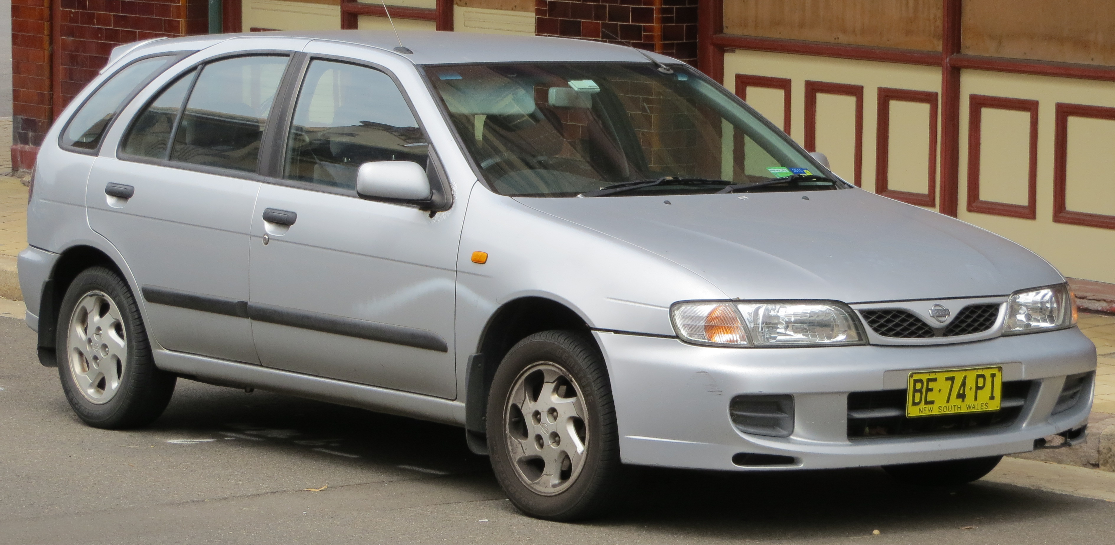 1998 Nissan Pulsar (N15 S2) Q 5-door hatchback. Photographed in Millers Point, New South Wales, Australia.